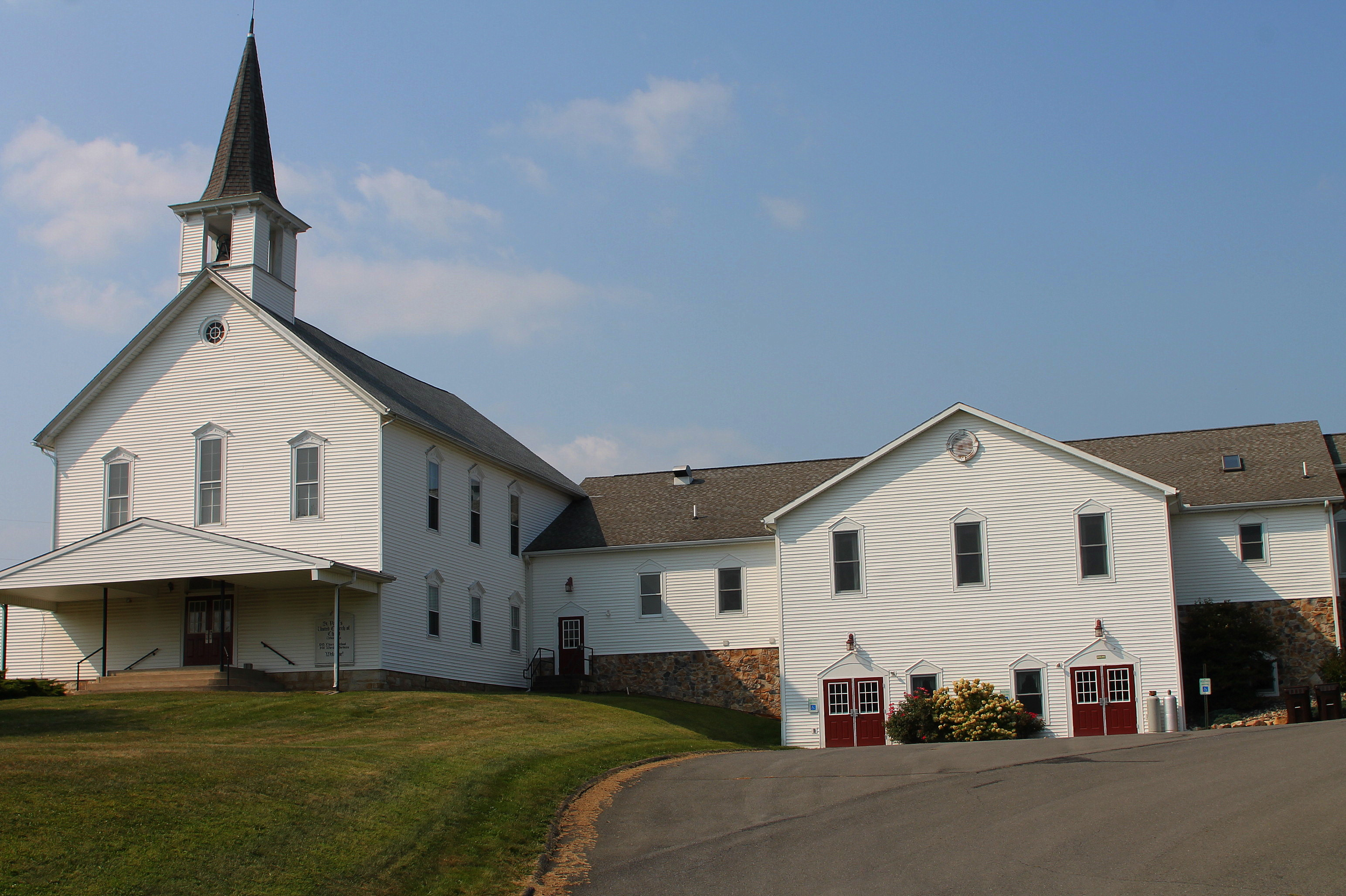 St. Paul's United Church of Christ in Jordan Township, Northumberland County, Pennsylvania